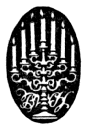 This is the logo of publisher B. W. Huebsch, from the 1916 first book edition of James Joyce's A Portrait of the Artist as a Young Man.